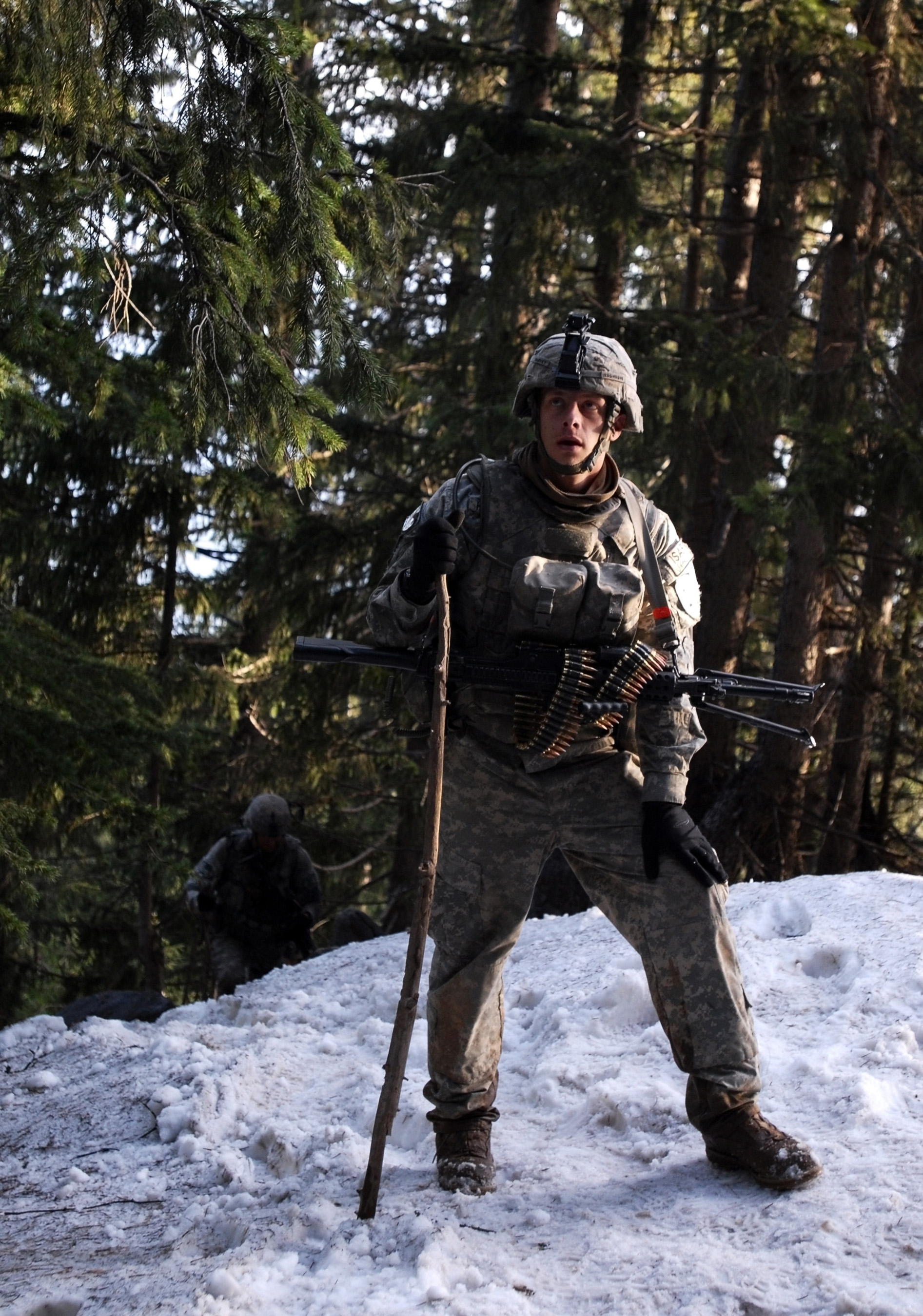 Spc. Andrew Harvey, a native of San Diego, Calif., takes a short break during a patrol up a mountain peak that overlooks Afghanistan's Korengal Valley, during Operation Viper Shake, April 21, 2009. Photo by Sgt. Matthew Moeller